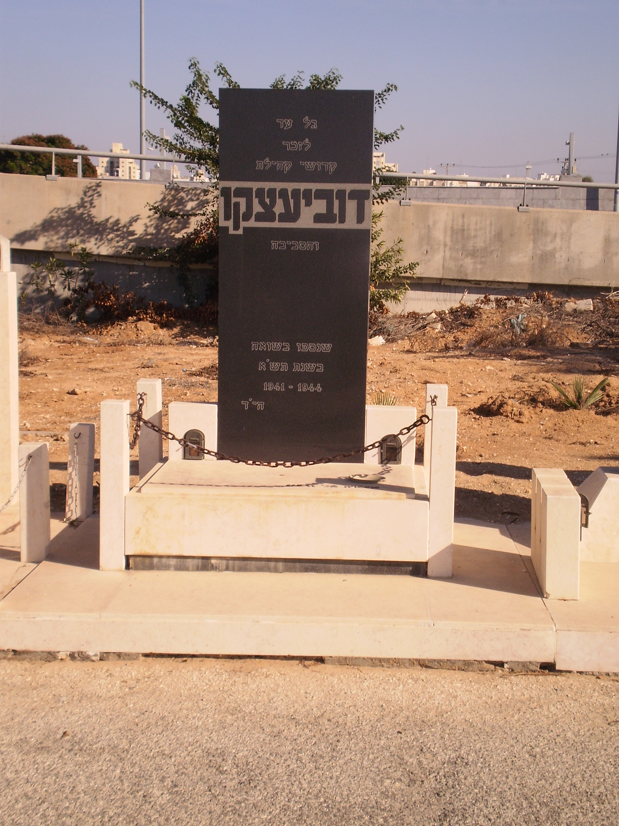 Dubiecko Jewery Holocaust memorial at Holon Cemetery